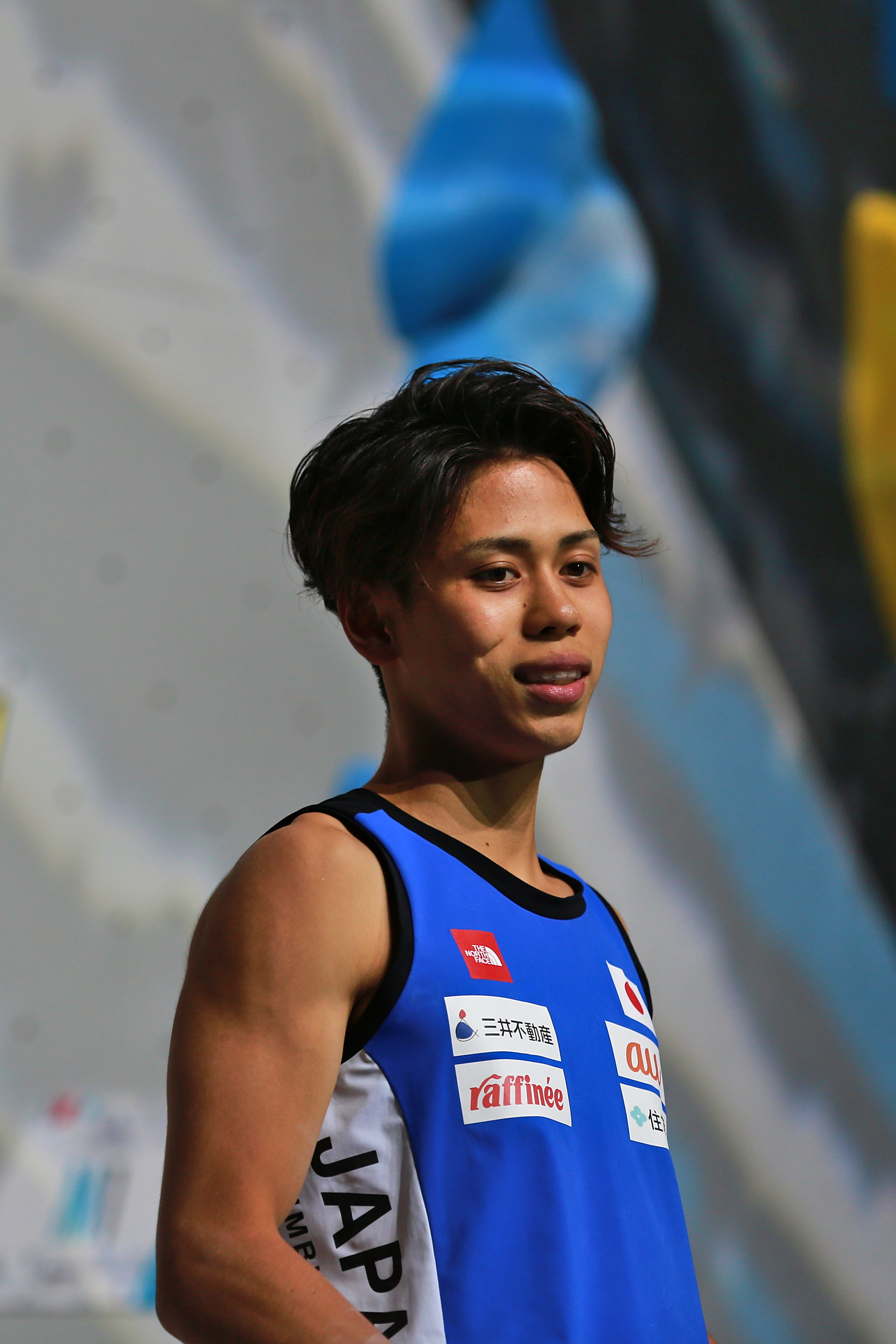 Climbing World Championships 2018 Combined Final Harada